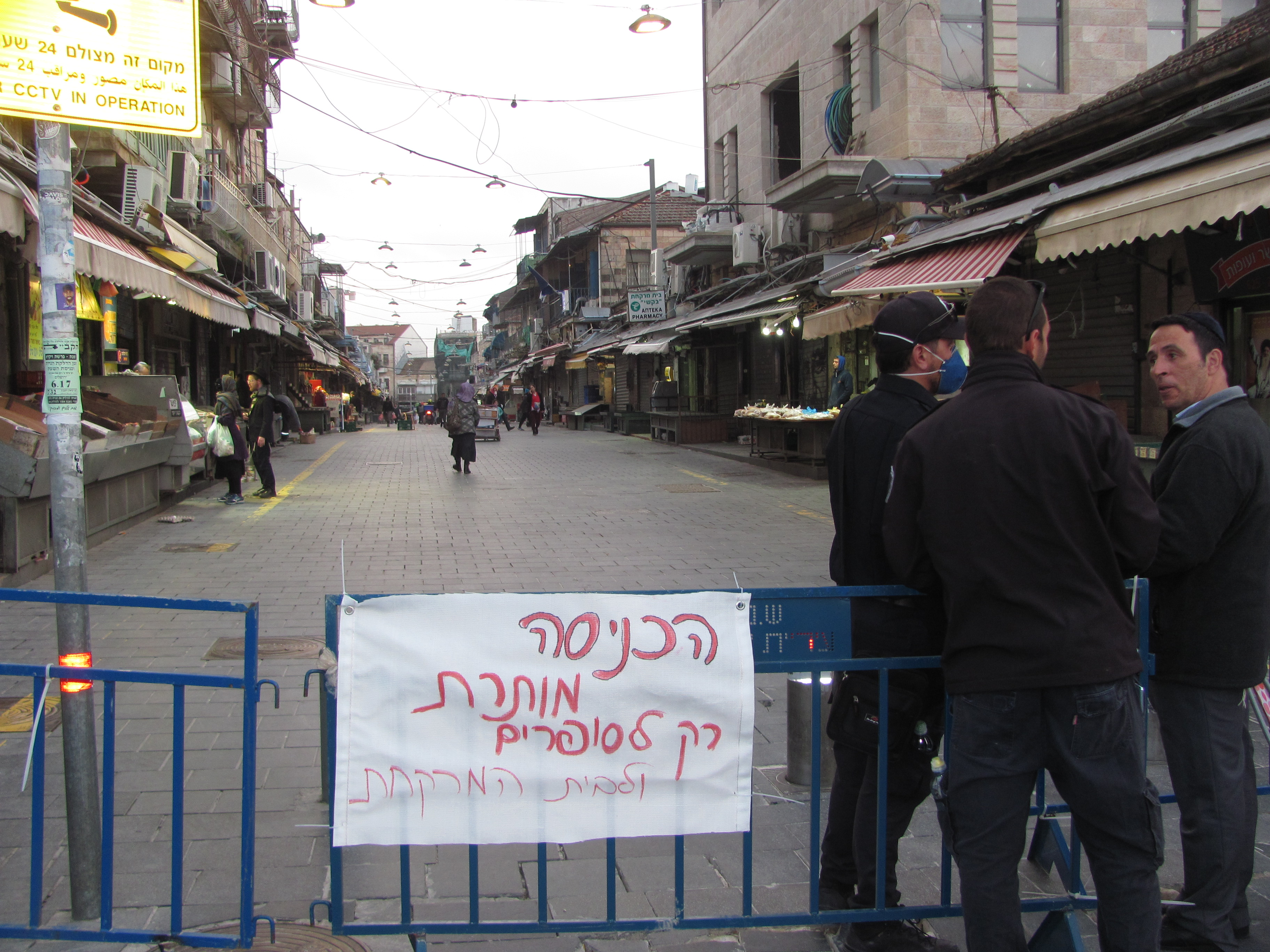 Mahane Yehuda Market in Jerusalem is closed due to the coronavirus pandemic. The sign reads: "Entrance permitted only to the supermarkets and pharmacy."